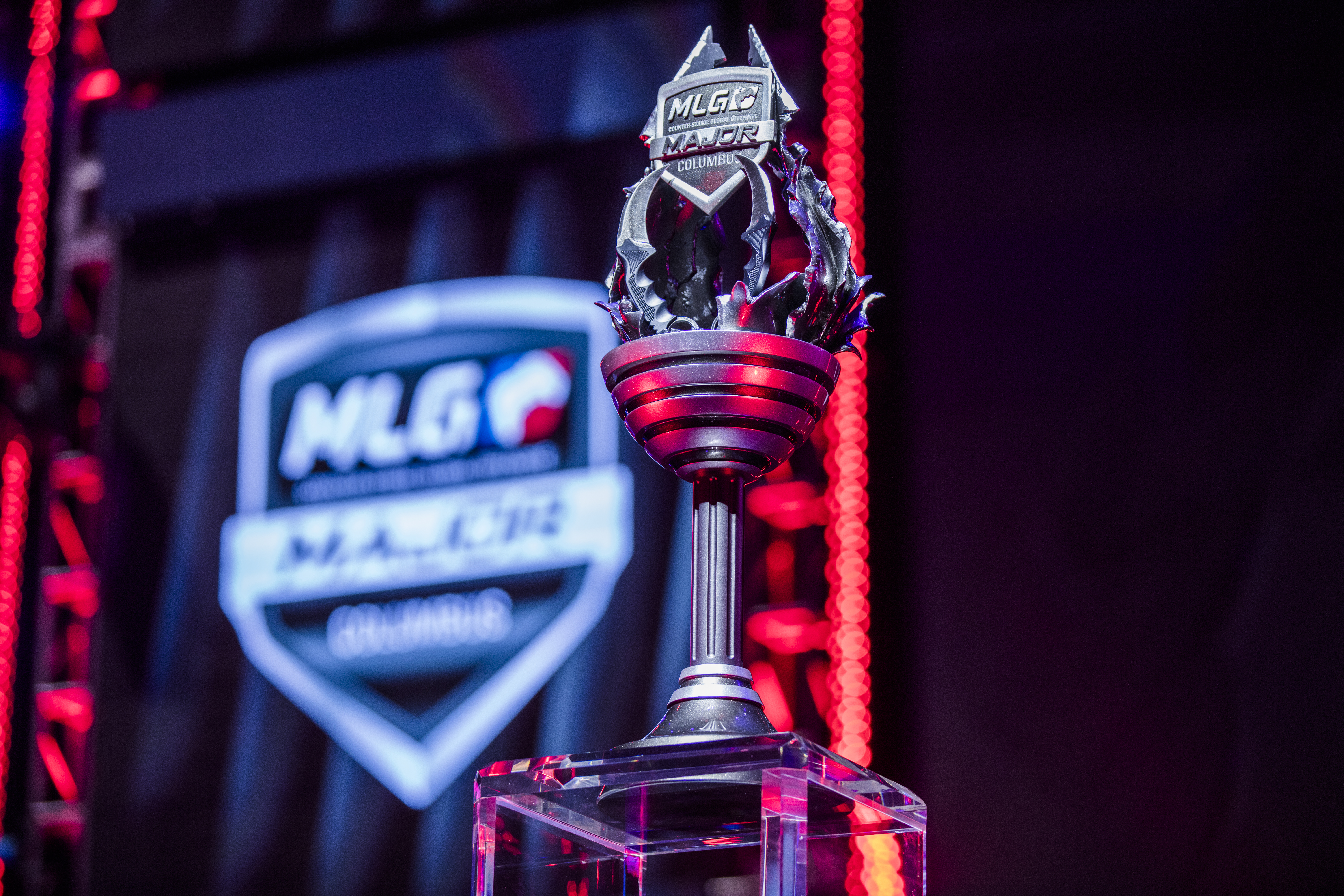 The cup for the CS:GO MLG Columbus tournament.